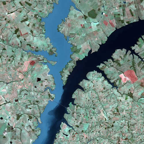 Rio Parana by SPOT Satellite